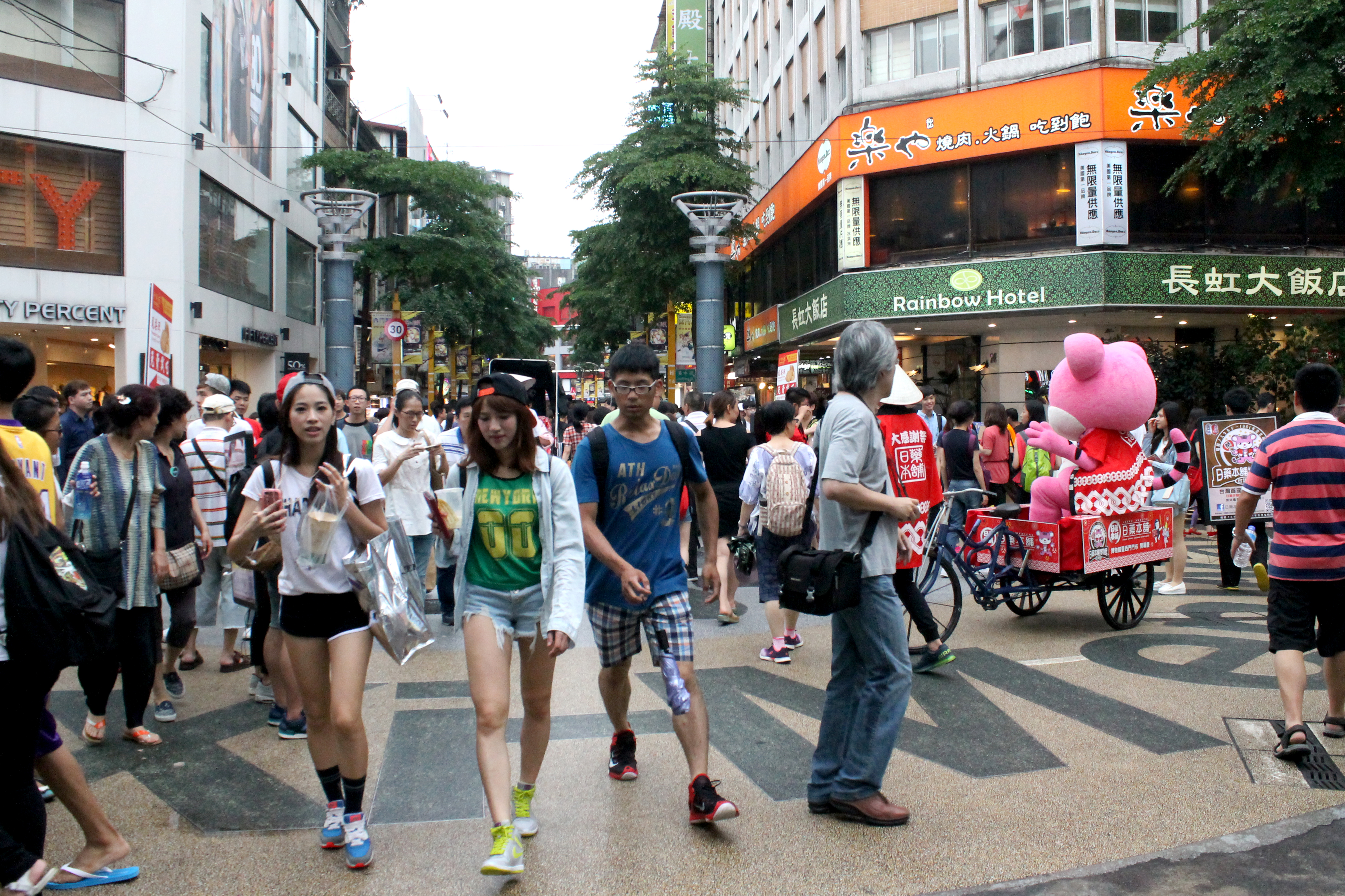 We visit Taipei for a weekend, and drop me off for my two weeks of the internship at the office in Taipei. It was a great time!